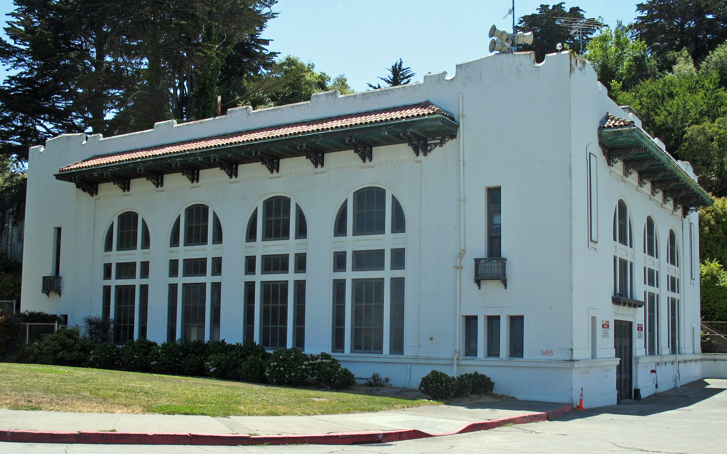 National Register of Historic Places in San Francisco, California. Pumping Station No. 2, San Francisco Fire Department Auxiliary Water Supply System, north end of Van Ness Blvd at McDowell Ave, San Francisco, California, USA. Photographed 2008-06-01 from the corner of Van Ness Blvd and McDowell Ave.